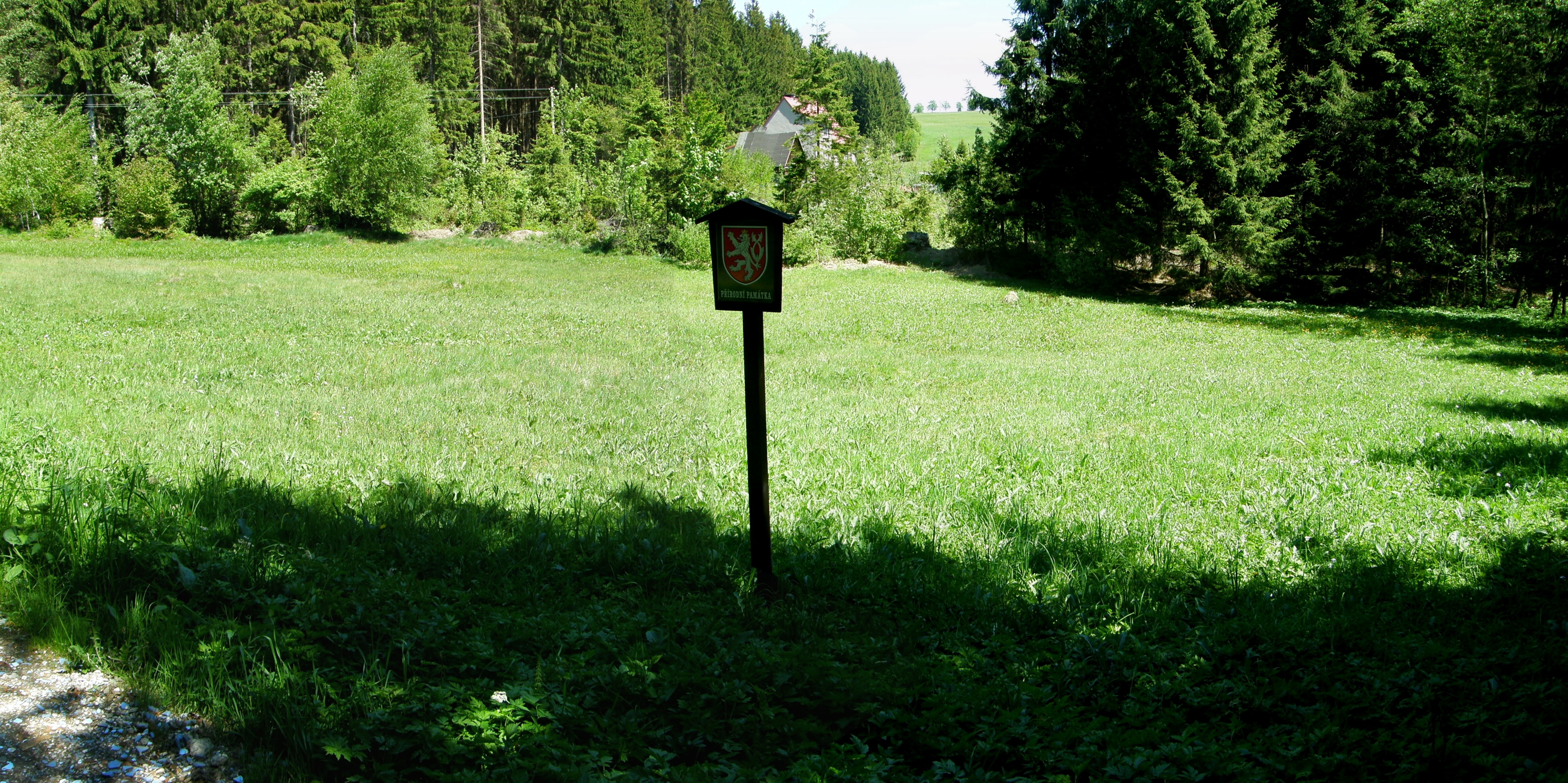 Natural monument Motyčanka near village Mosty u Jablunkova in Frýdek-Místek District, Czech Republic Project: Chráněná území.